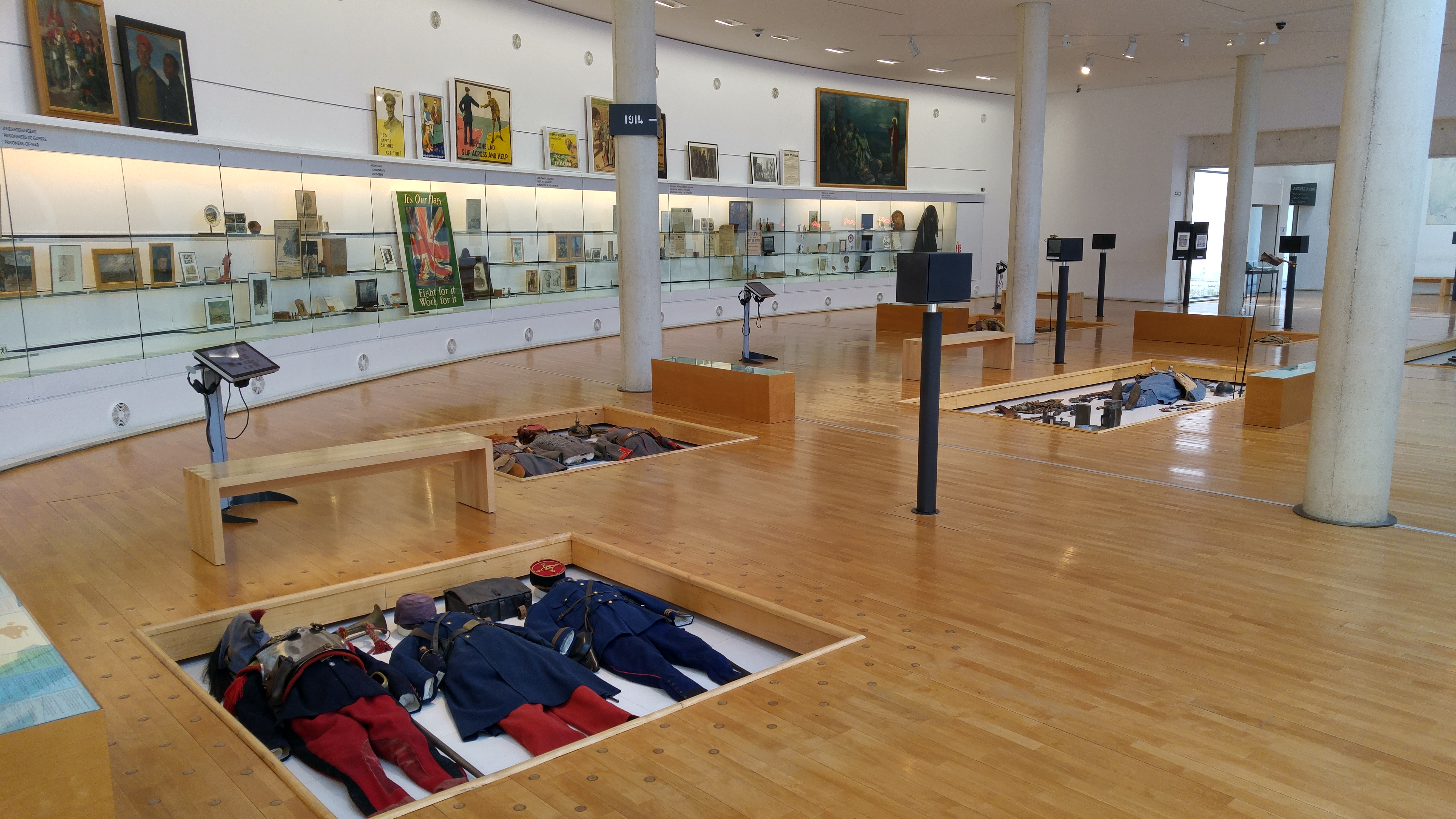 World War I museum "Historial de la Grand Guerre", Peronne, France